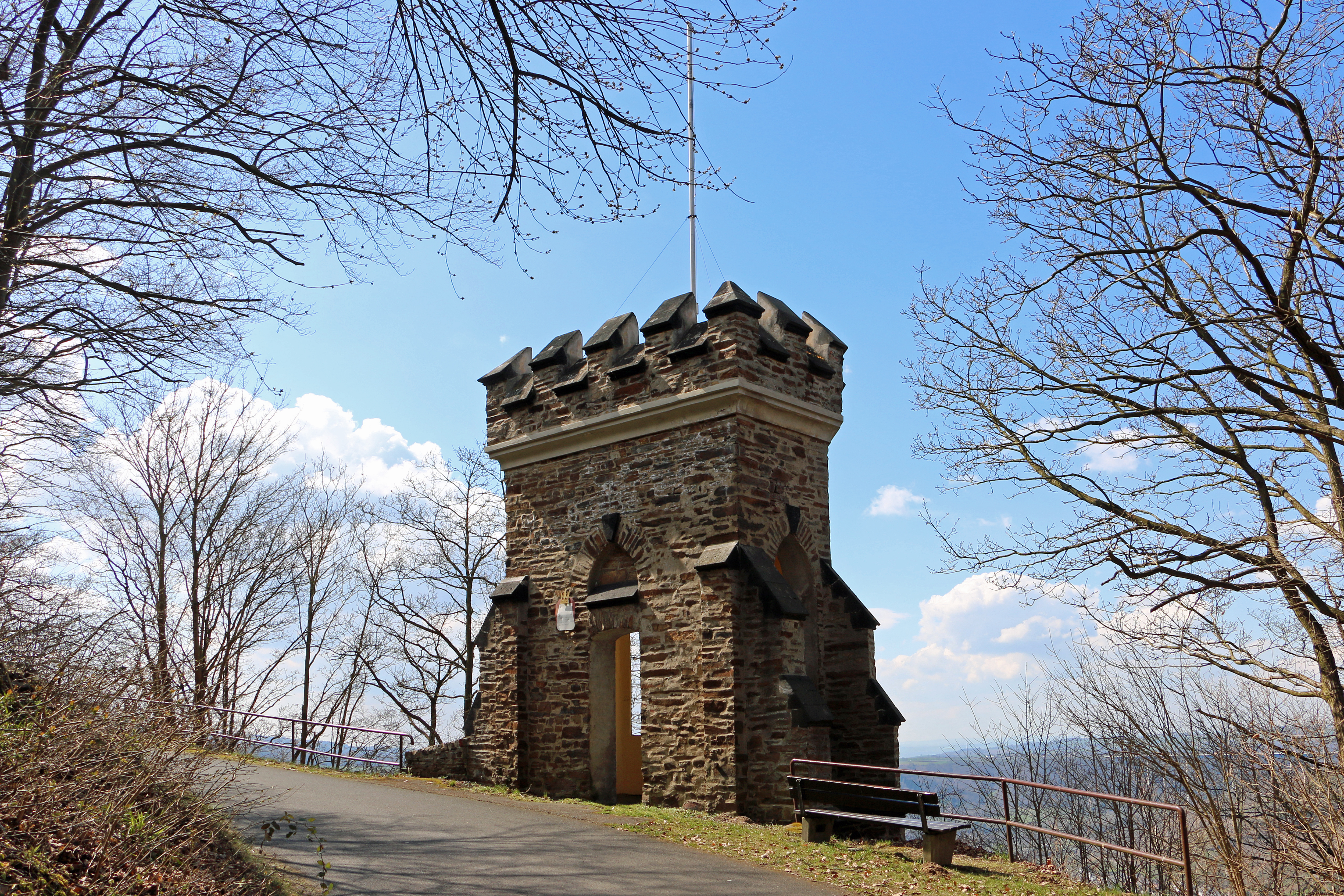 Carola tower in Koblenz